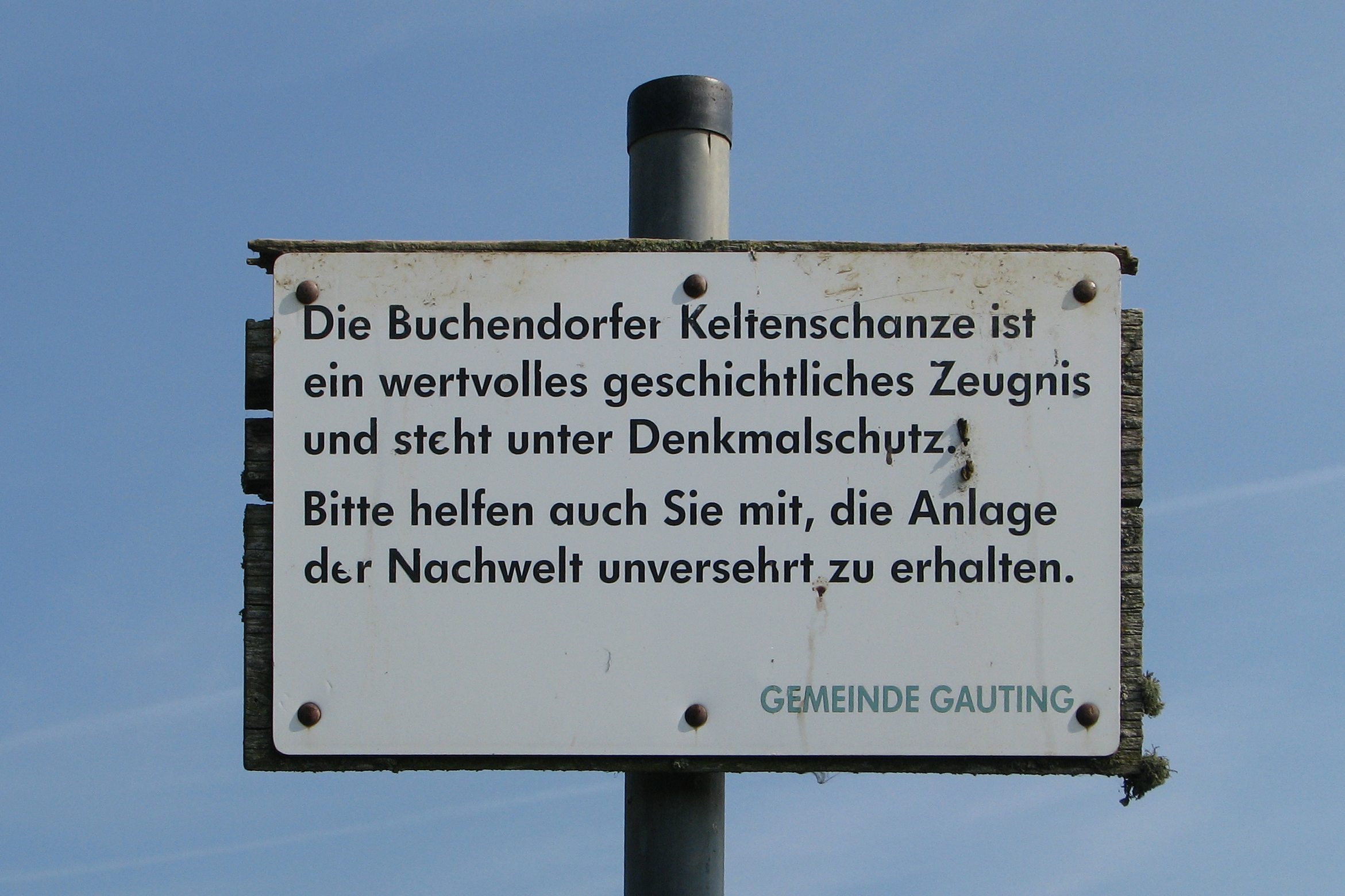 A Celtic nemeton (GErman: Viereckschanze or Keltenschanze) near to the small German village Buchendorf.